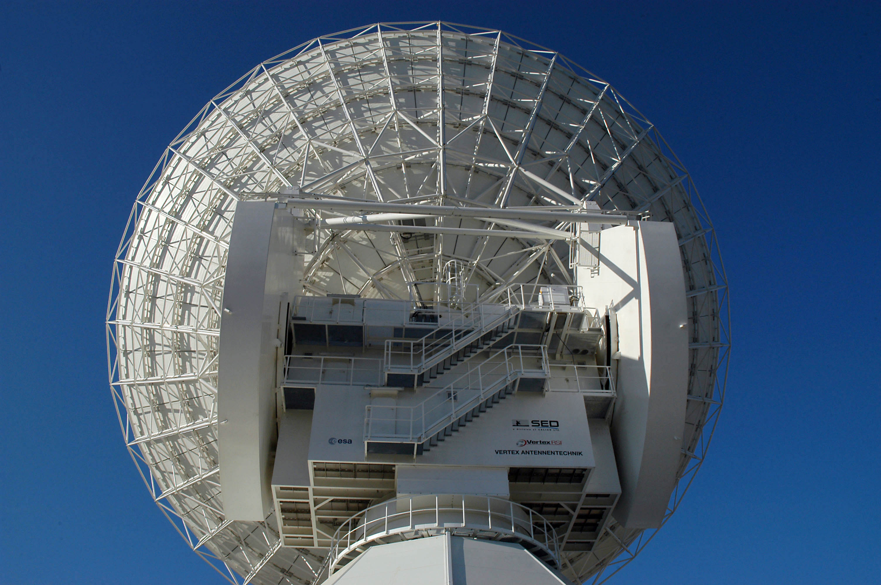 Rear view of the dish antenna on ESA's 35 m-diameter tracking station at Cebreros, Spain.